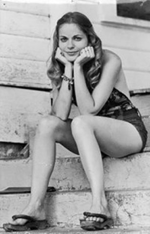 Teri McMinn in the film making of The Texas Chain Saw Massacre.